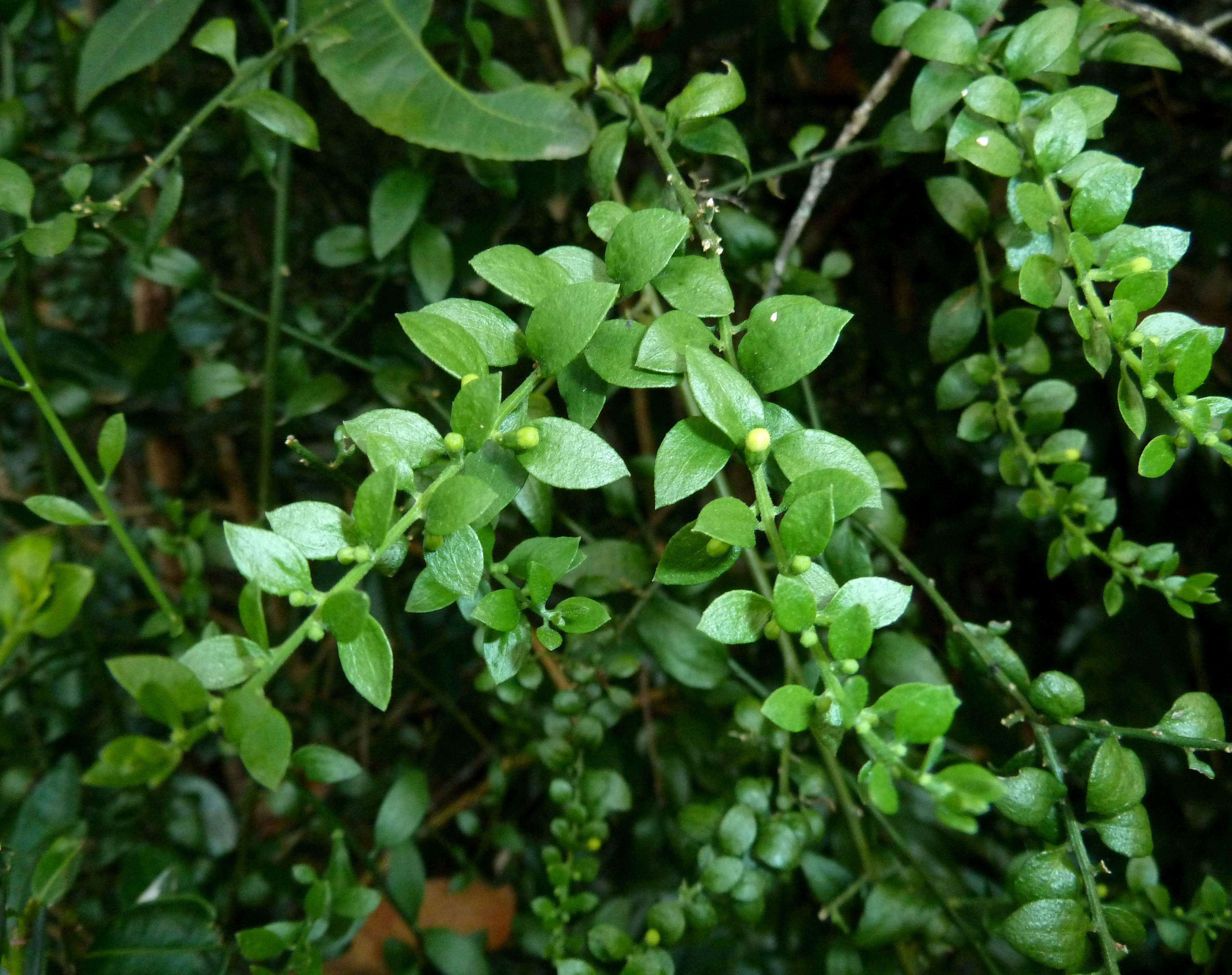 Habit of Osyridicarpos schimperianus in Krantzkloof Nature Reserve